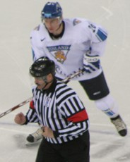 Semifinal Torino 2006: Russian players Pavel Datsyuk, Ilya Kovalchuk vs. Finnish players Teemu Selänne, Saku Koivu and Jere Lehtinen.